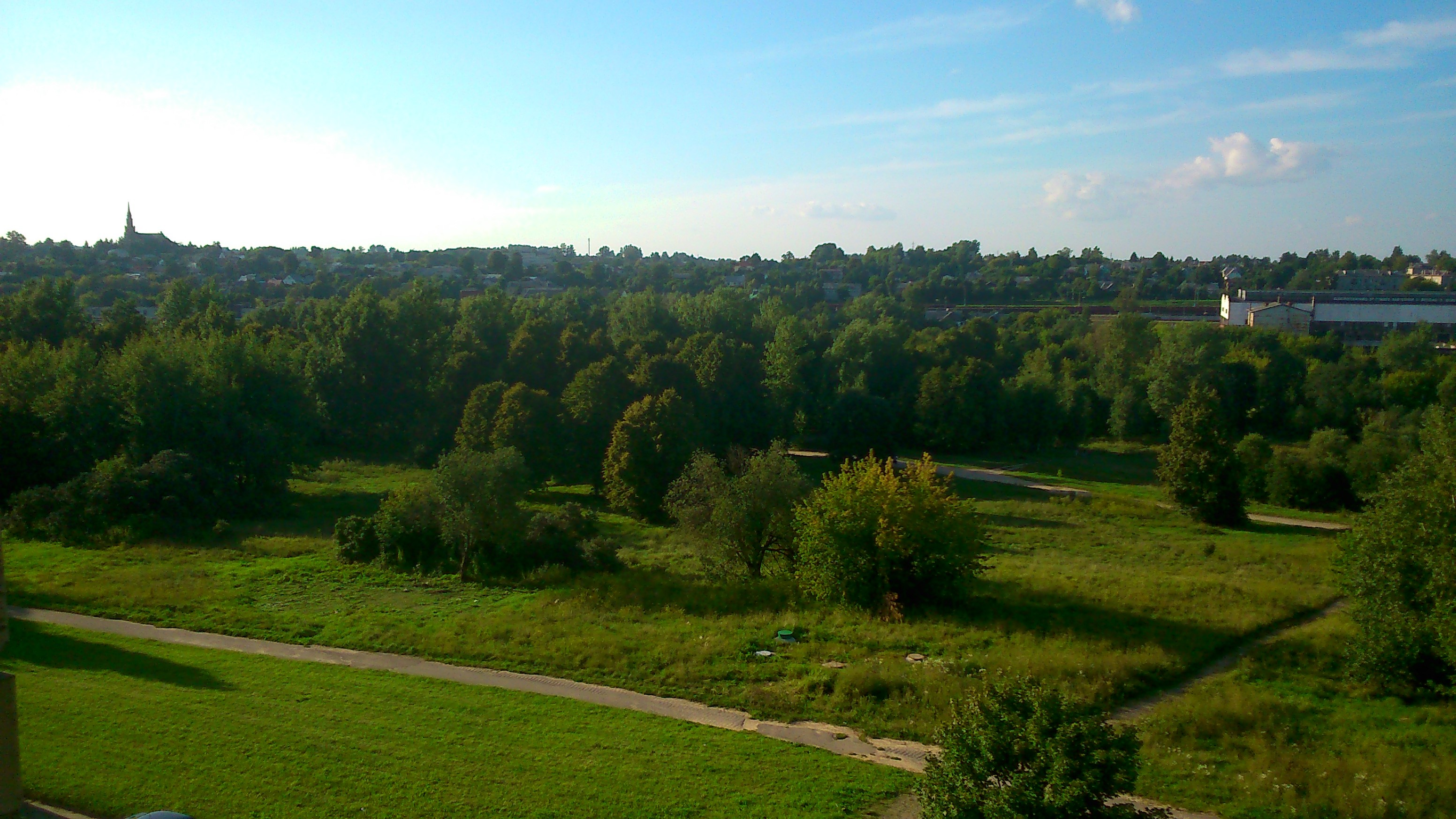 Naujoji Vilnia Park